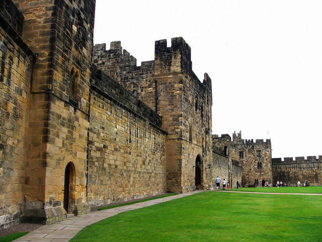 Alnwick Castle